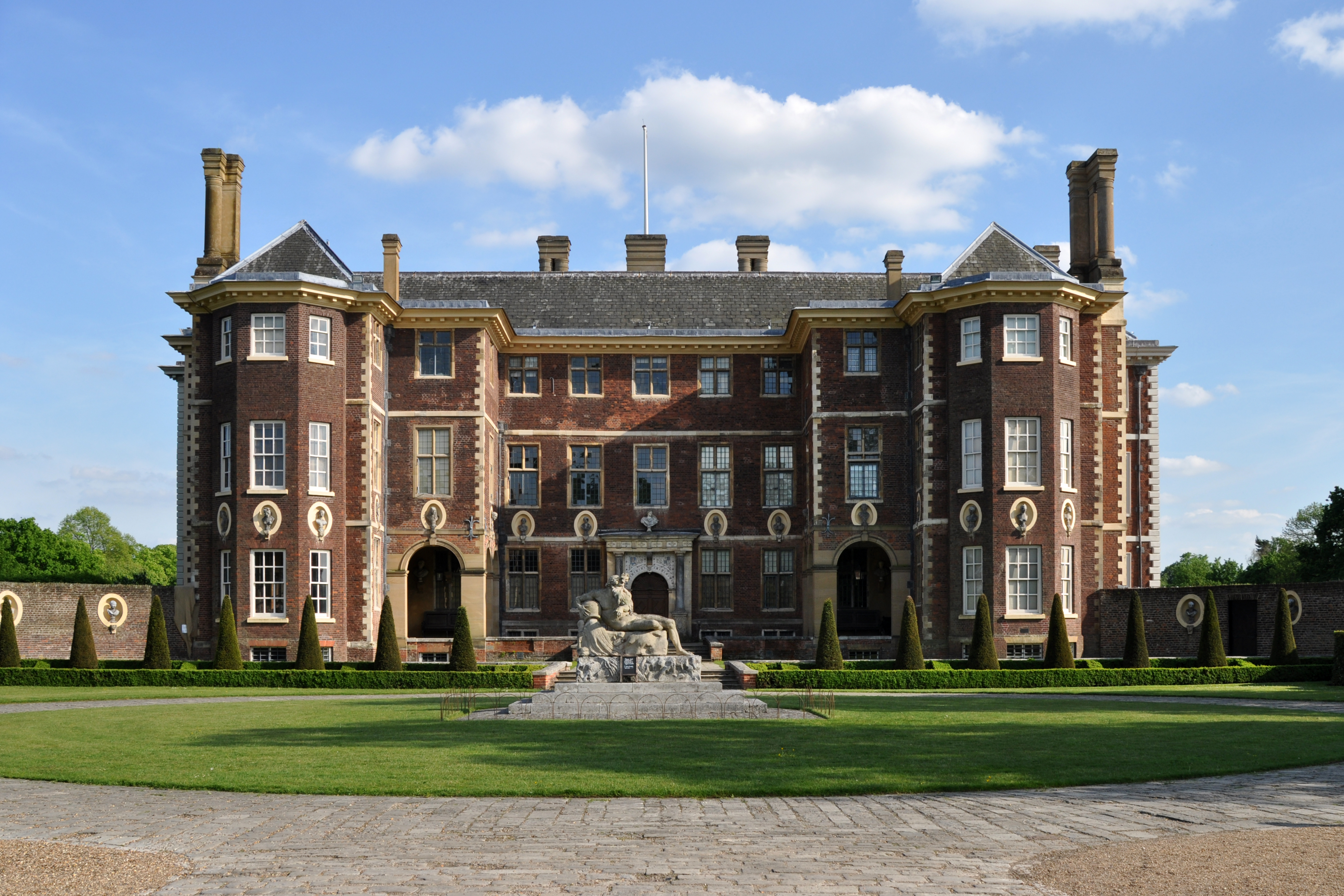 Ham House Wikidata has entry Q1572552 with data related to this item.